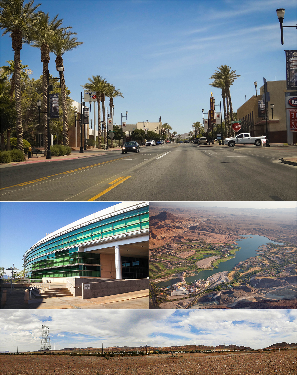 Clockwise from top: Water Street Historic District of Downtown Henderson, aerial view of Lake Las Vegas, Foothills nearby Henderson, Henderson City Hall.